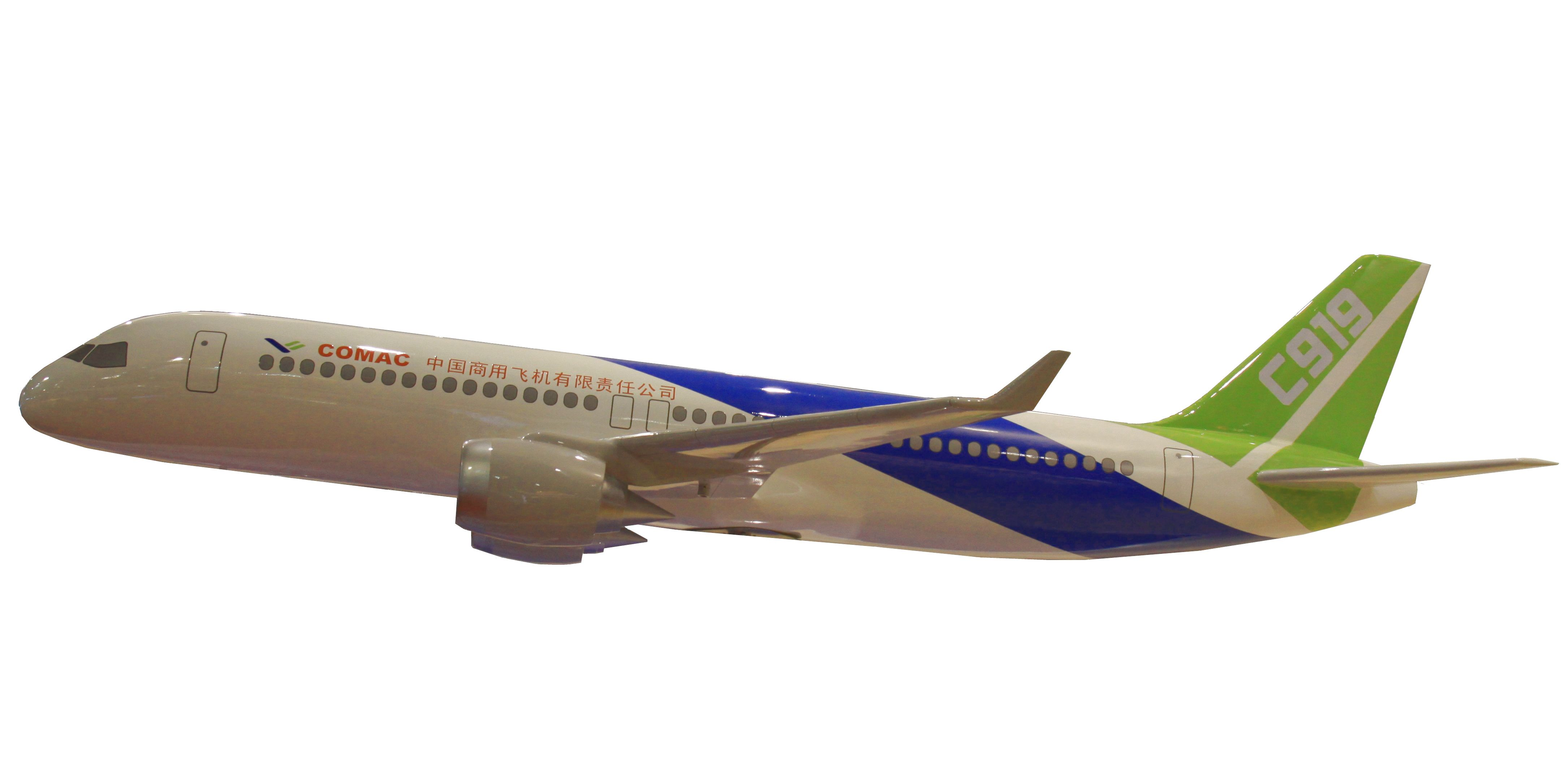 Singapore Airshow 2010